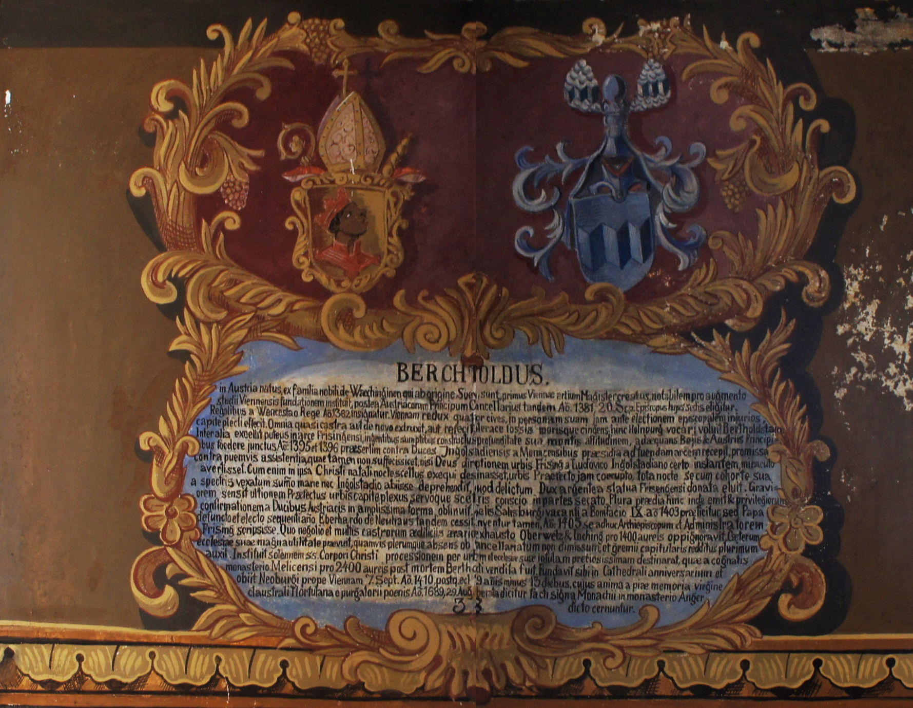 Wappentafel von Berthold von Wehingen, Fürstbischof von Freising, im Fürstengang zwischen Fürstbischöflicher Residenz und Freisinger Dom. Links das geistliche, rechts das persönliche Wappen, darunter ein lateinischer Text mit kurzer Biographie.